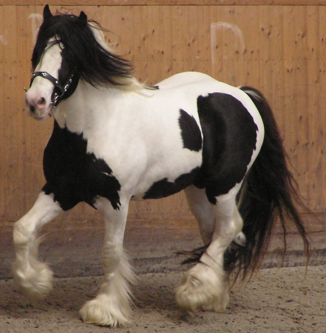 Irish Tinker horse; horse show, Císařský ostrov, Prague, Czech Republic